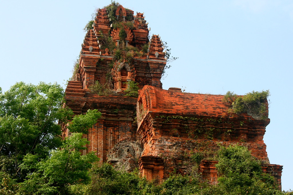 Banh It Cham towers in Binh Dinh Province, Vietnam